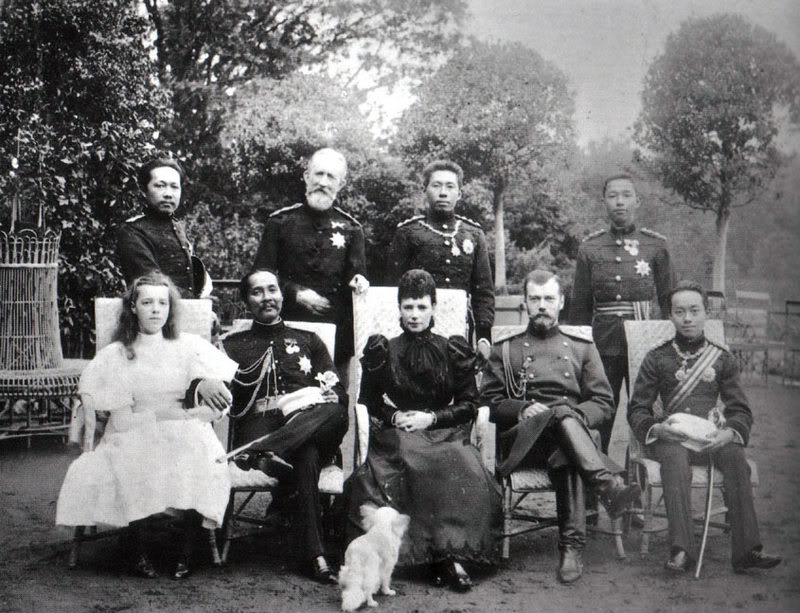 King Chulalongkorn in Russia 1897 with the Tsar, ALexander Palace